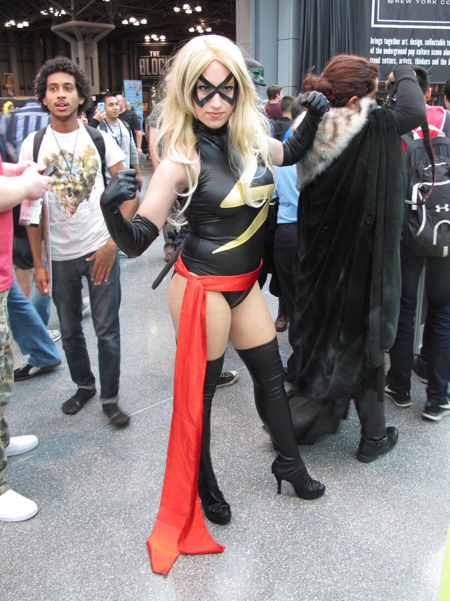 Ms. Marvel Cosplay at the 2014 New York Comic Con.